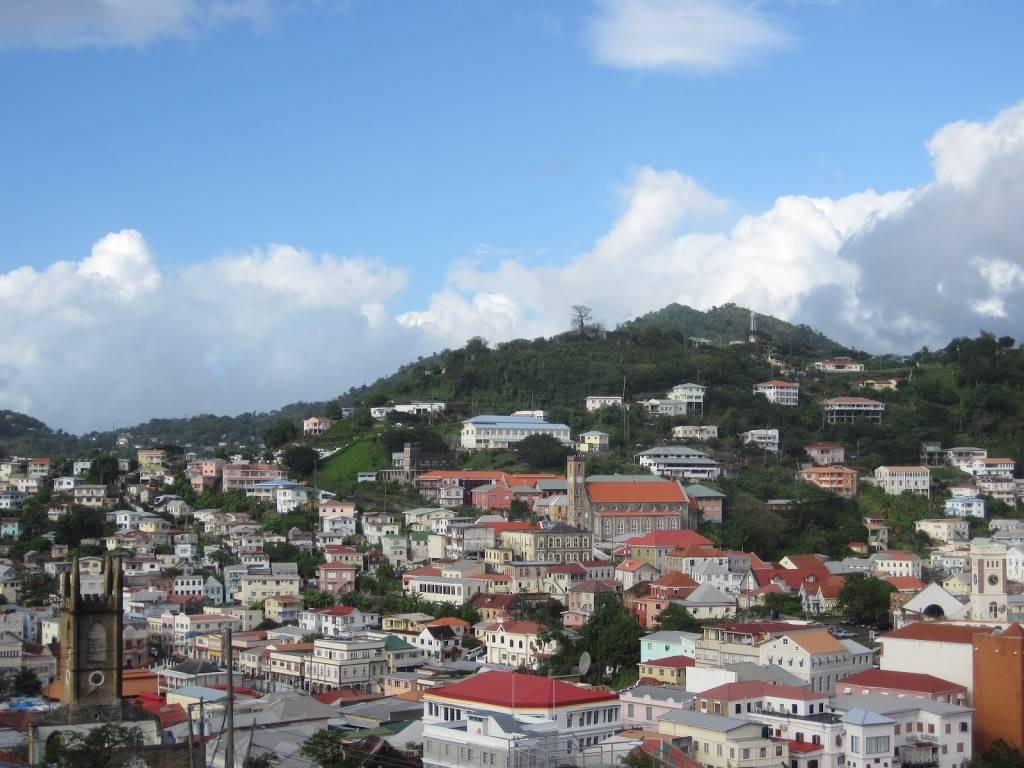 View of Saint George's downtown from Fort George